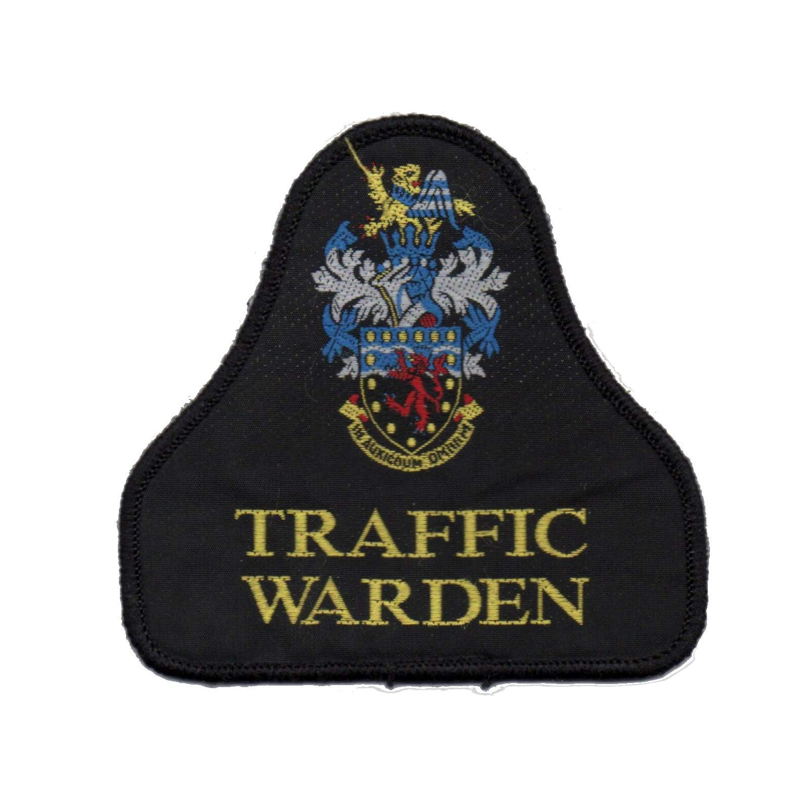 Part of my collection of UK Law enforcement patches.